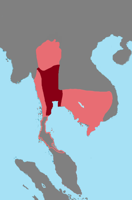 The extent of Ayutthaya in 1605. I've drawn this map by using Photoshop. The font used is [1], a free font.